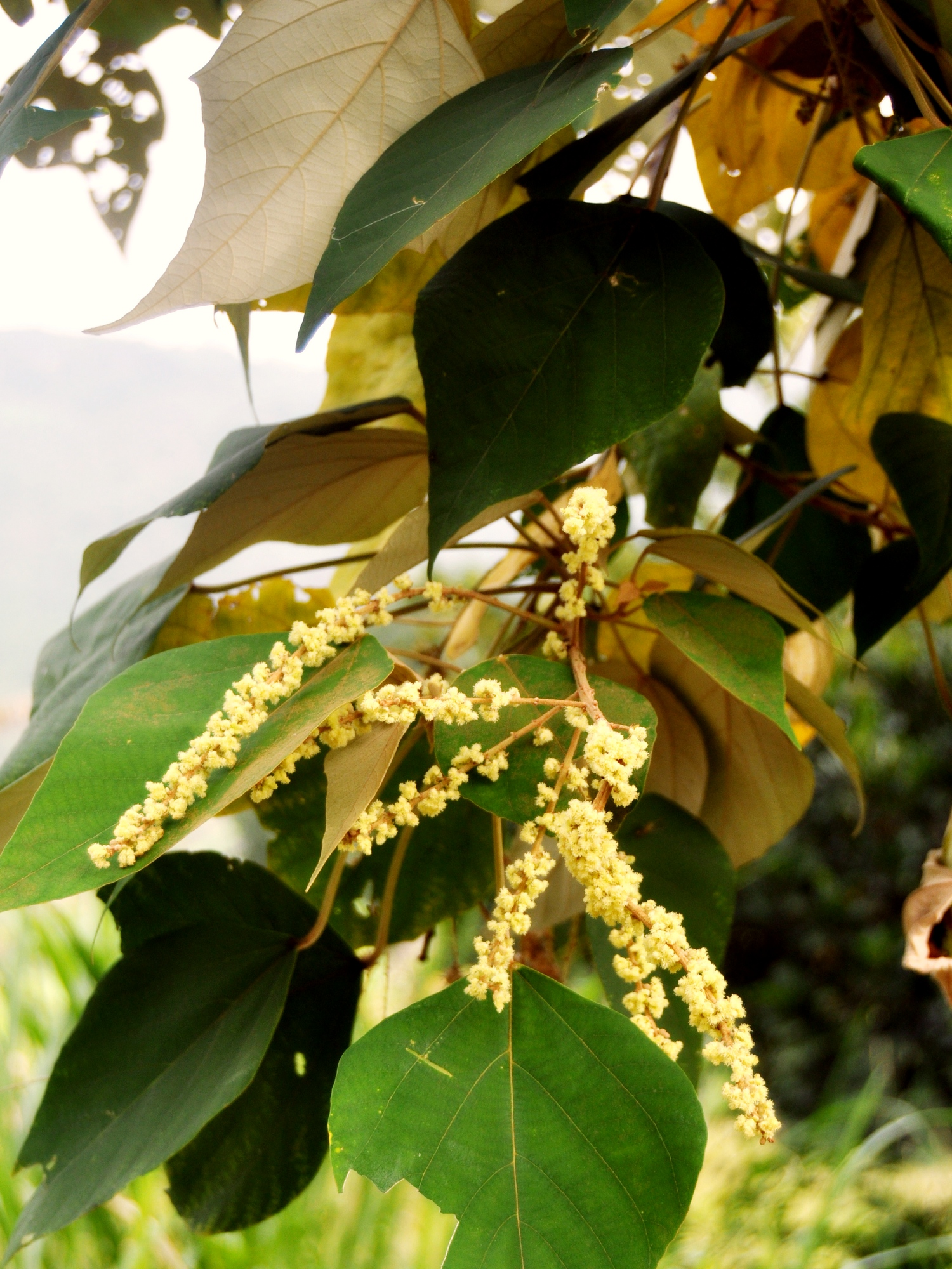 Mallotus paniculatus; twigs with staminate panicles. From Bogor, West Java, Indonesia.